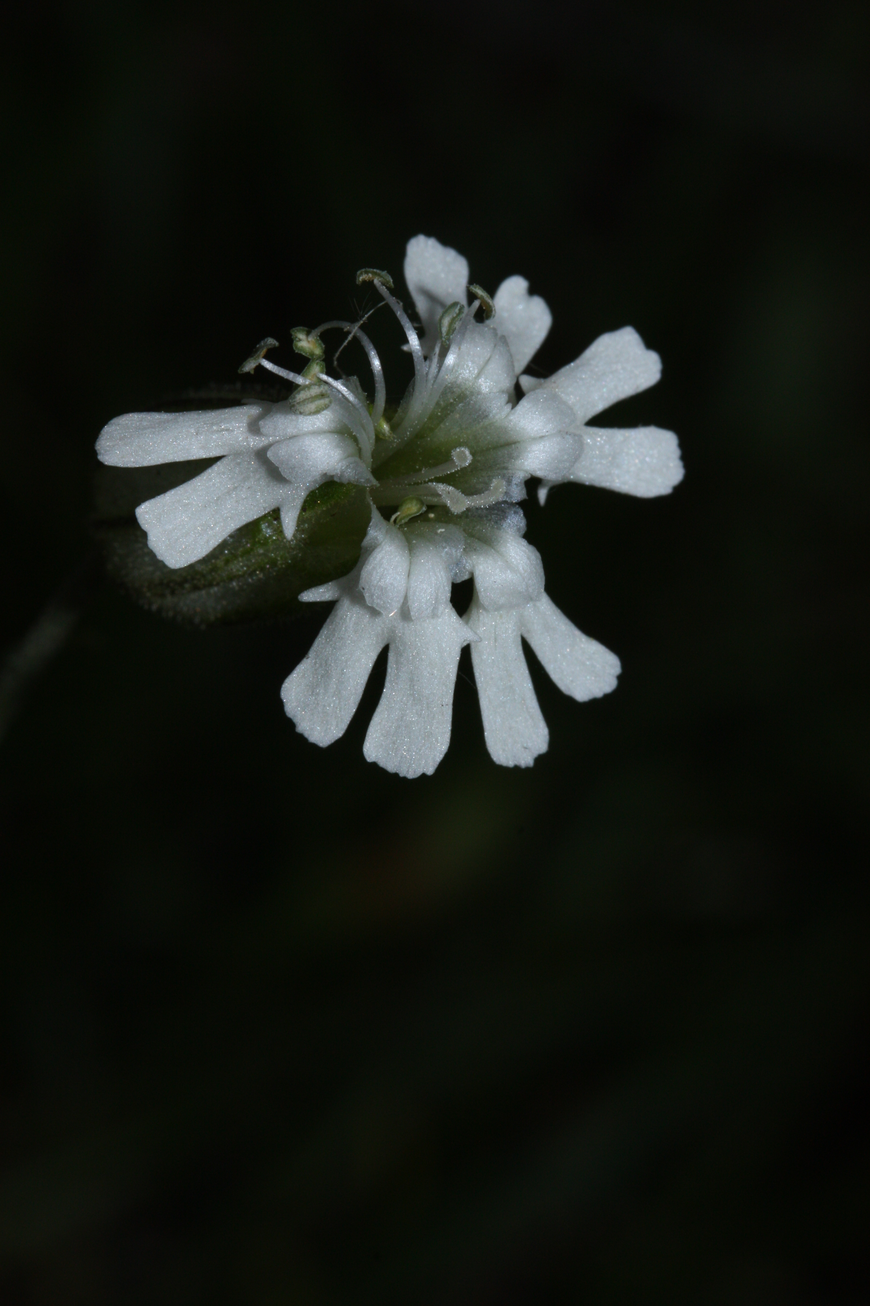 Parry's Silene